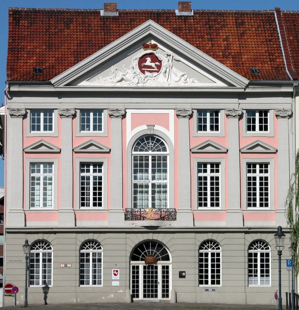 Braunschweig, Germany: Prince’s Chamber.